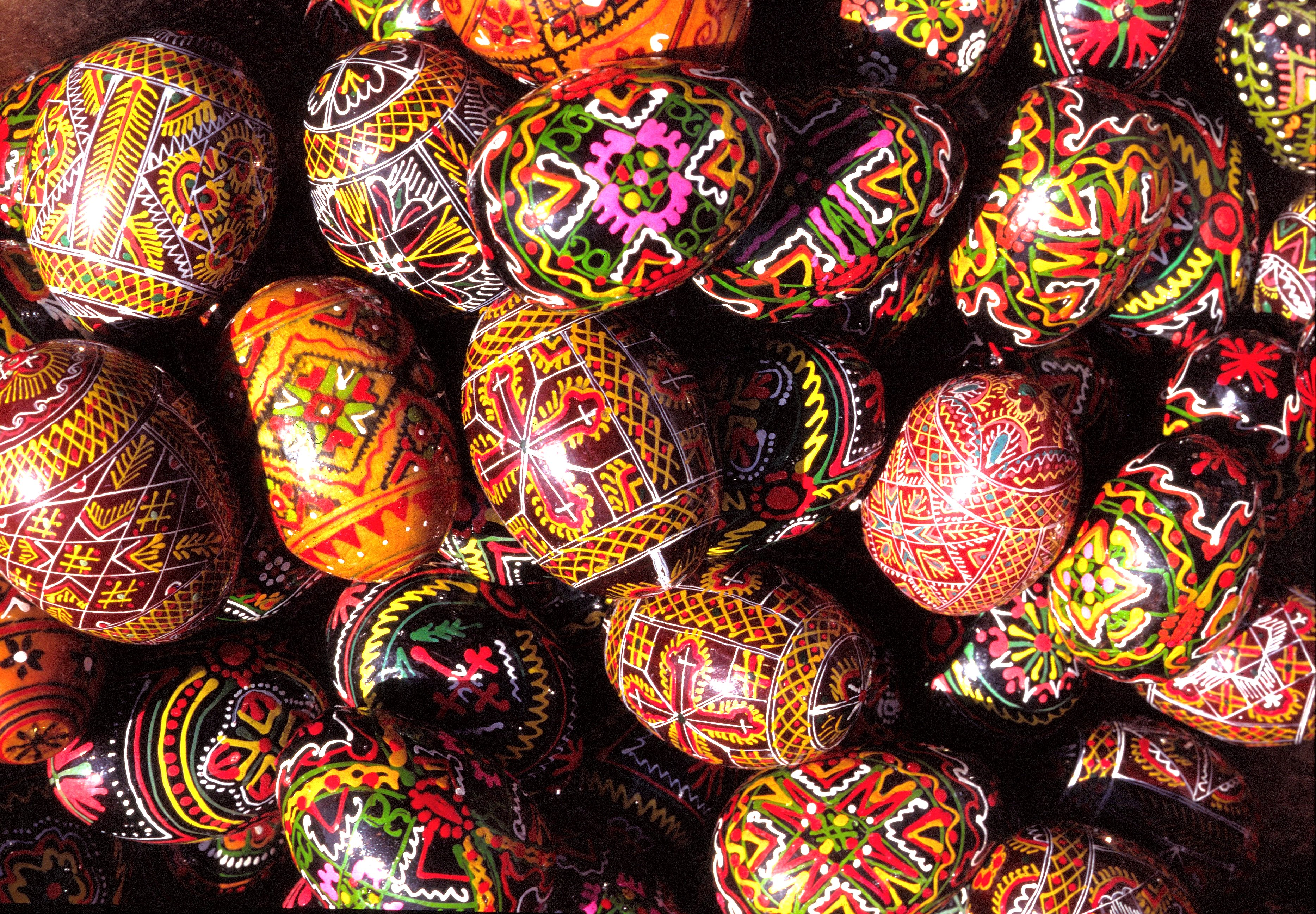 Easter eggs in Greeece /Athens market